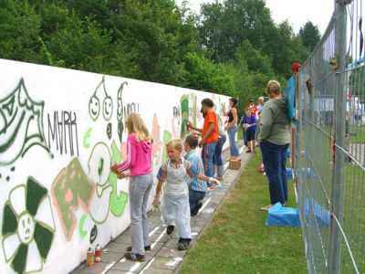 An Upwardly Global workshop during Zulu Nation Holland BlockJam.